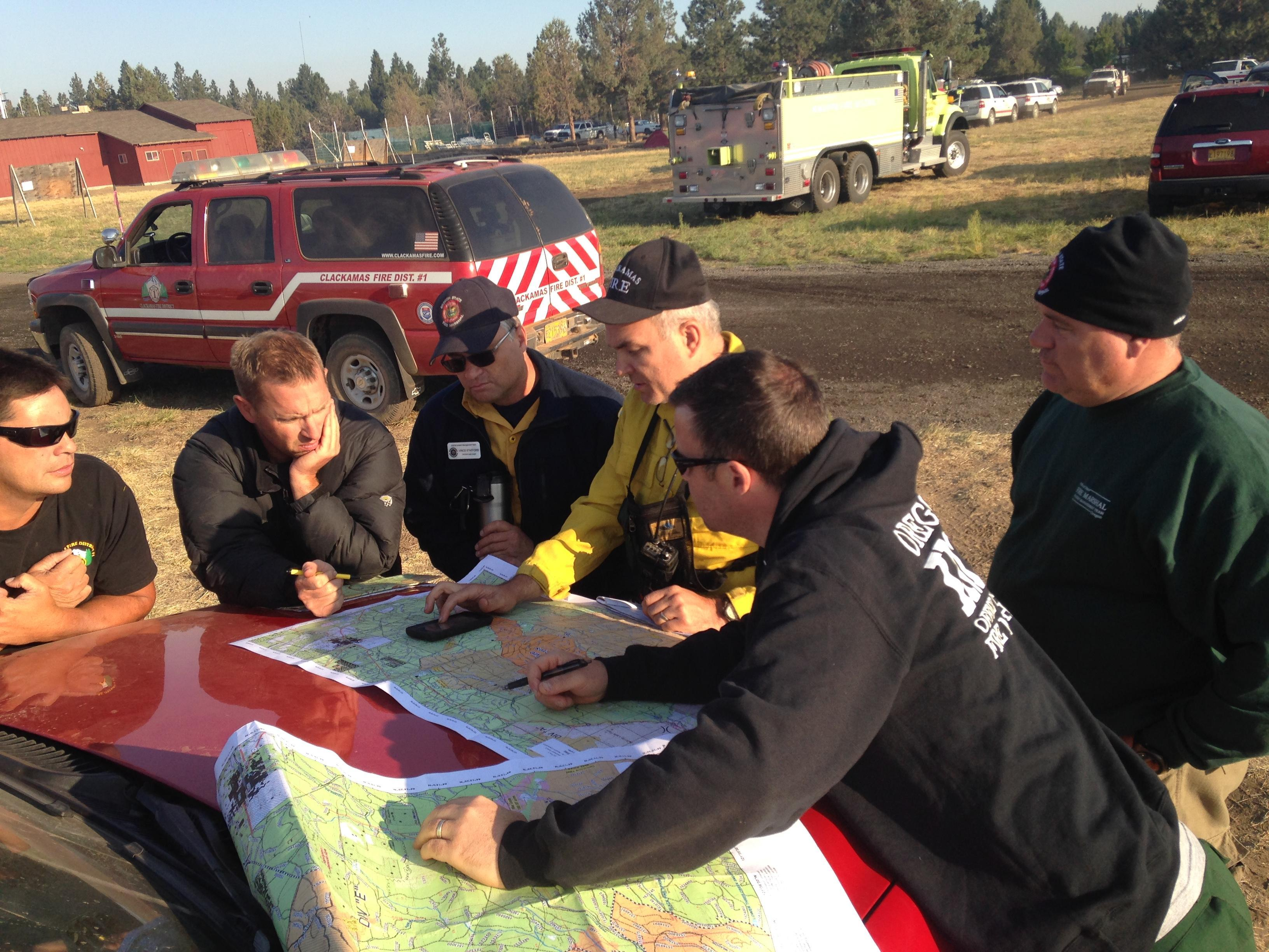 Fire managers planning operations during 2017 Milli Fire near Sisters, Oregon